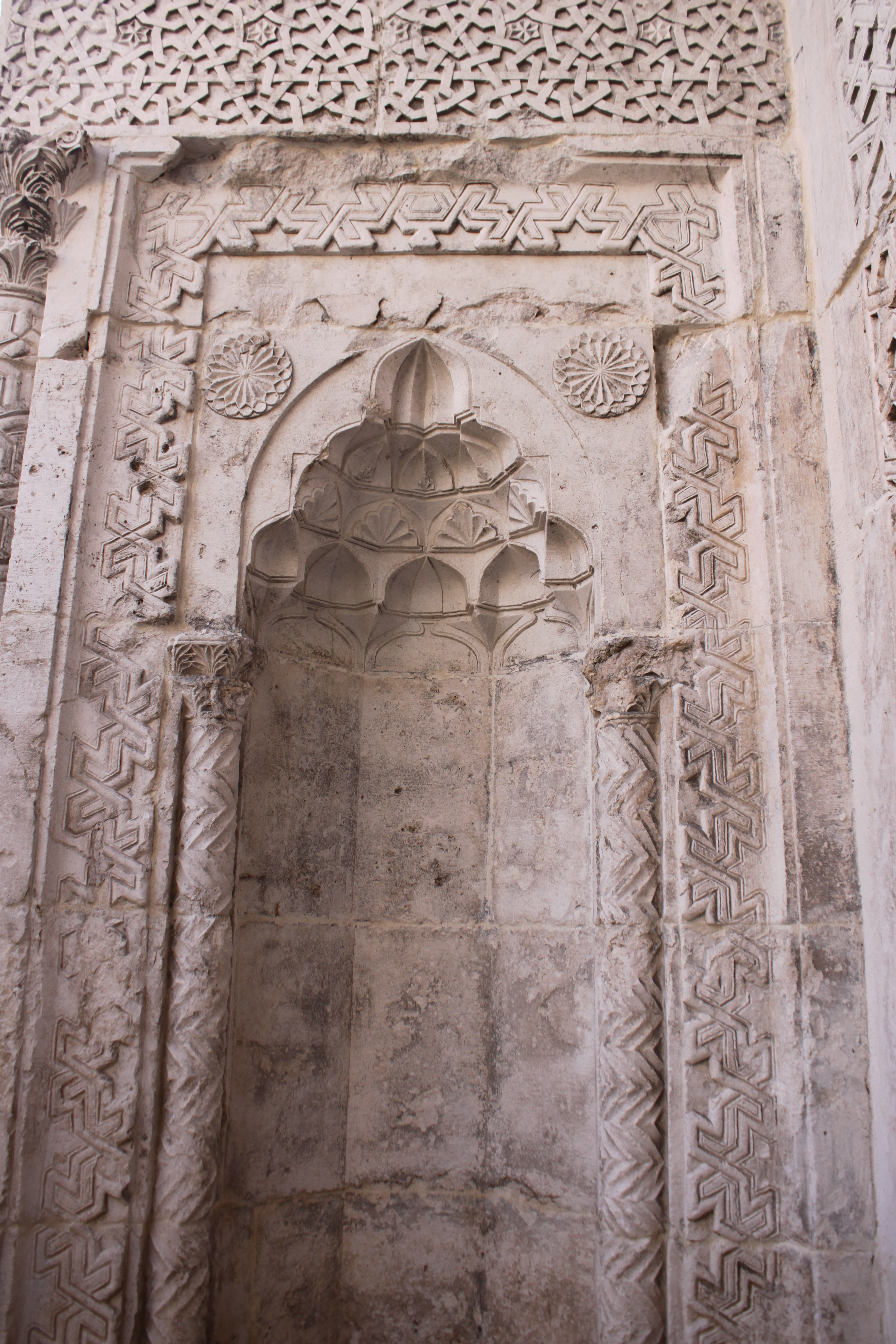 Eğirdir, Taş Madrese (Koran school), niche from the 13th century; originally from Eğirdir Han